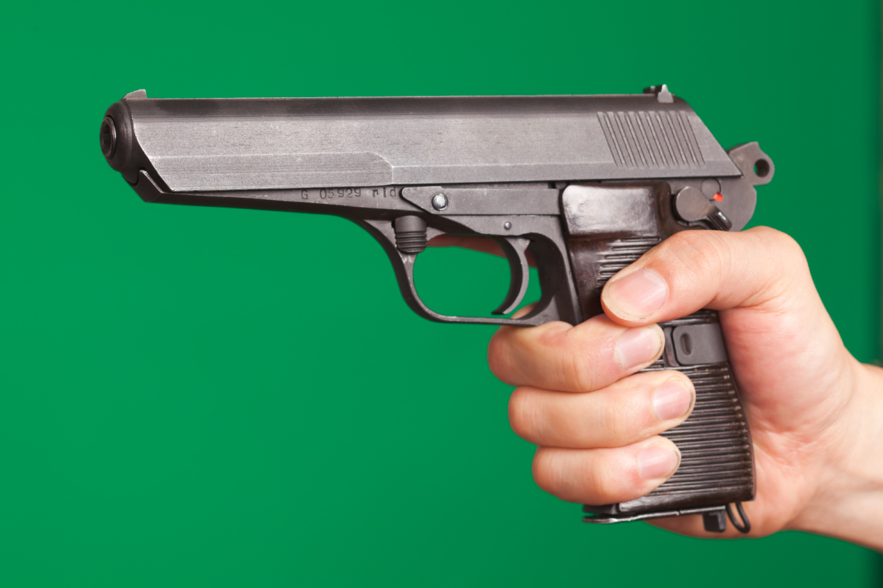 CZ52 pistol